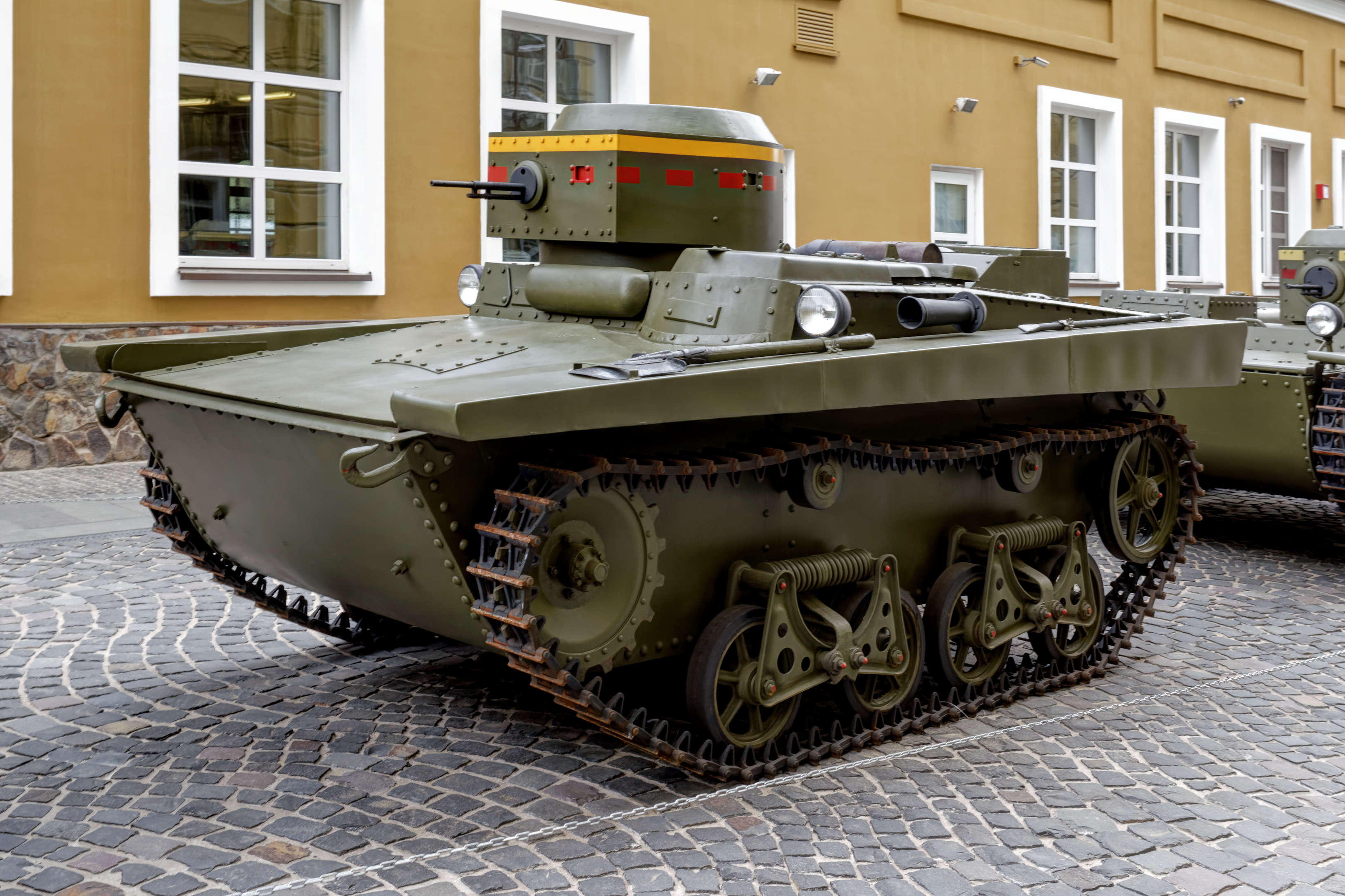 Arkhangelskoye. Vadim Zadorozhny’s Vehicle Museum. T-37A